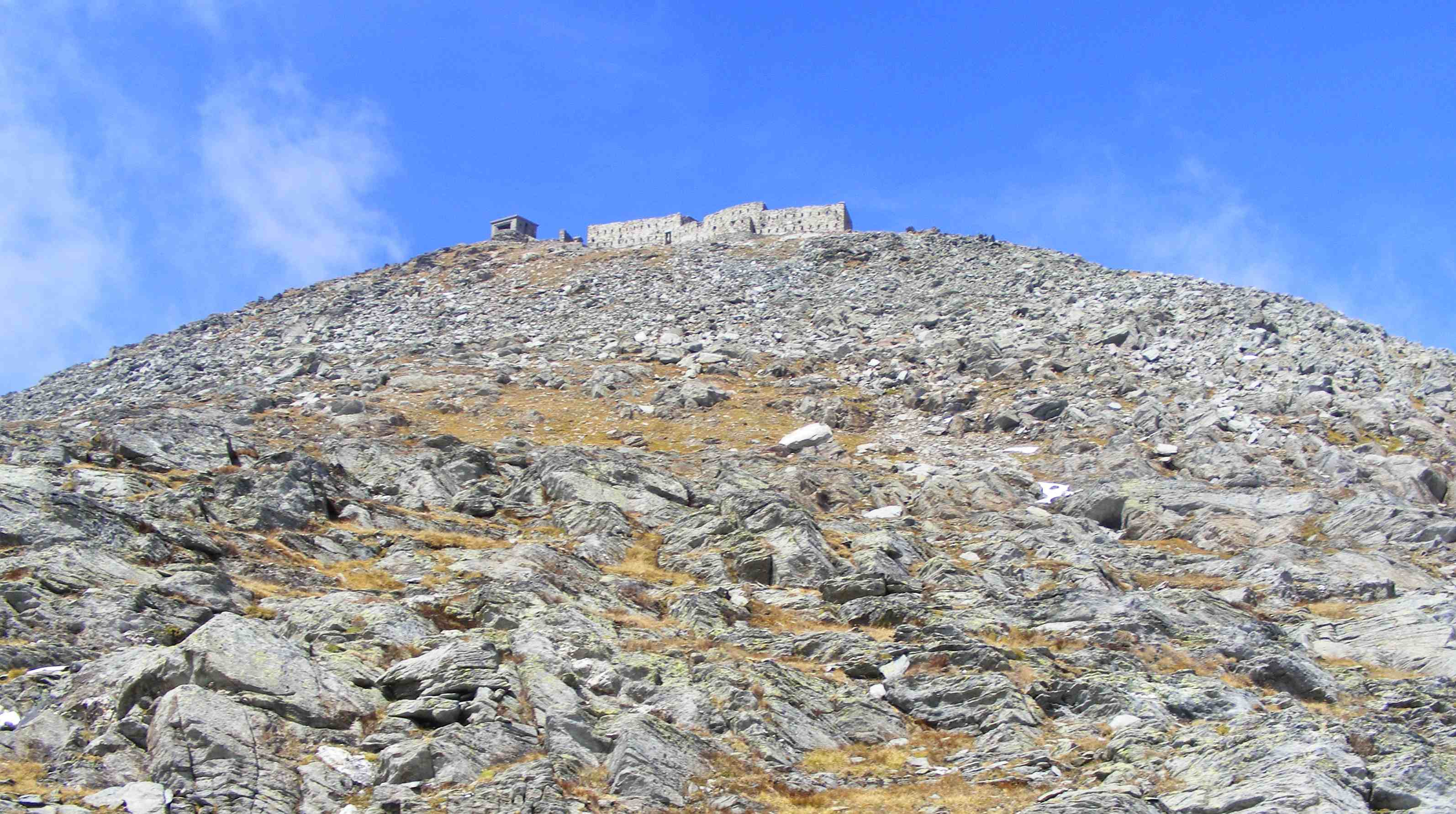 Mount Malamot fron its south-eastern slope (Cottian Alps, France)